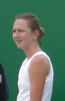 Elena Likhovtseva during the 2006 Australian Open.